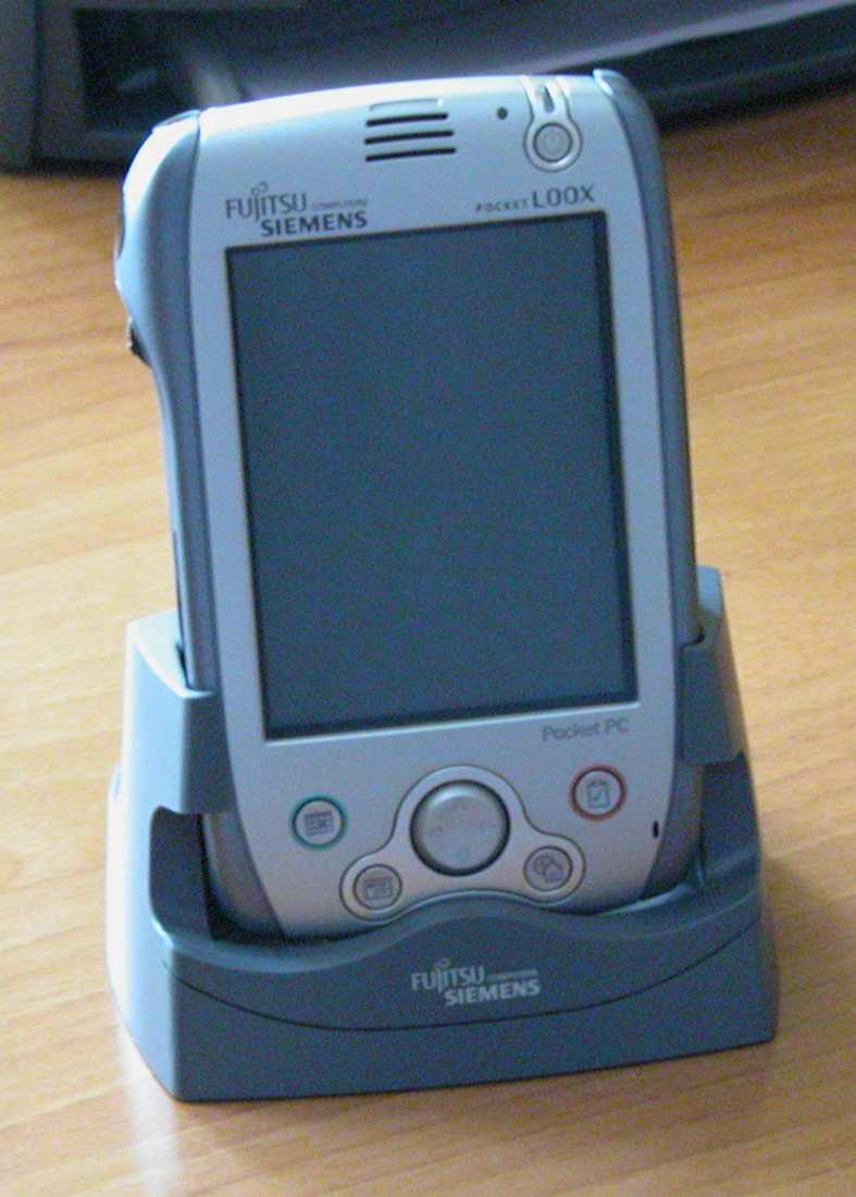 Photo of Fujitsu Siemens Pocket LOOX 600 PDA in cradle